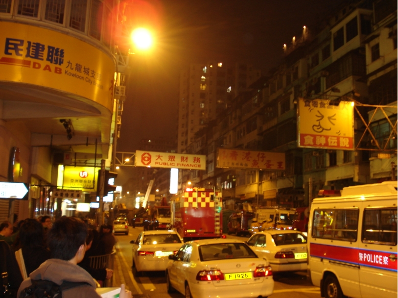 No traffic was allowed along Ma Tau Wai Road because of collapsing buildings.